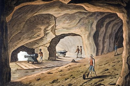 "Inside a gallery on the Rock of Gibraltar, engraved by Joseph Constantine Stadler by Rev. Cooper Willyams